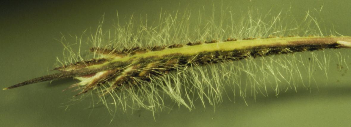 The hairless and spikelet-less tip of the lateral branch, as well as the widely spready hairs emanating from the glumes, are diagnostic.